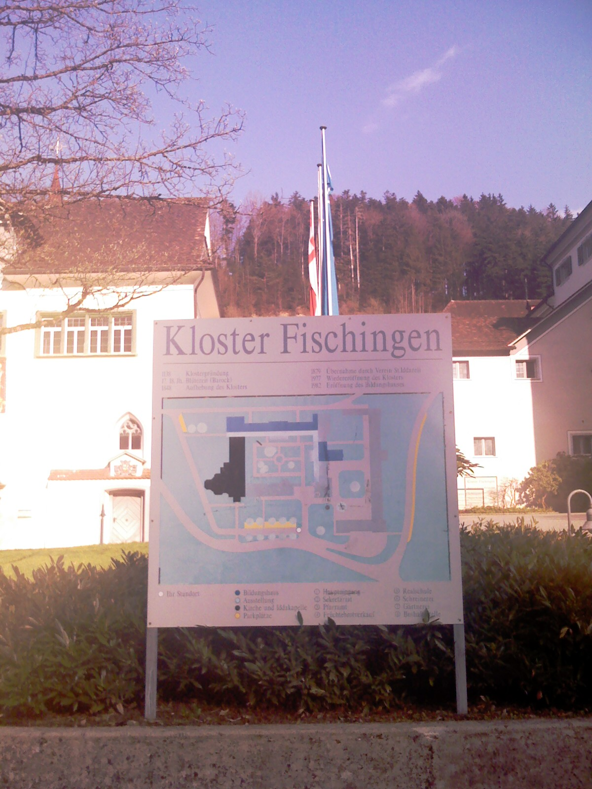 Map of the Monastery Fischingen, canton of Thurgau, SwitzerlandEsperanto: Mapo de la Monaĥejo Fischingen, Kantono Turgovio, Svislando